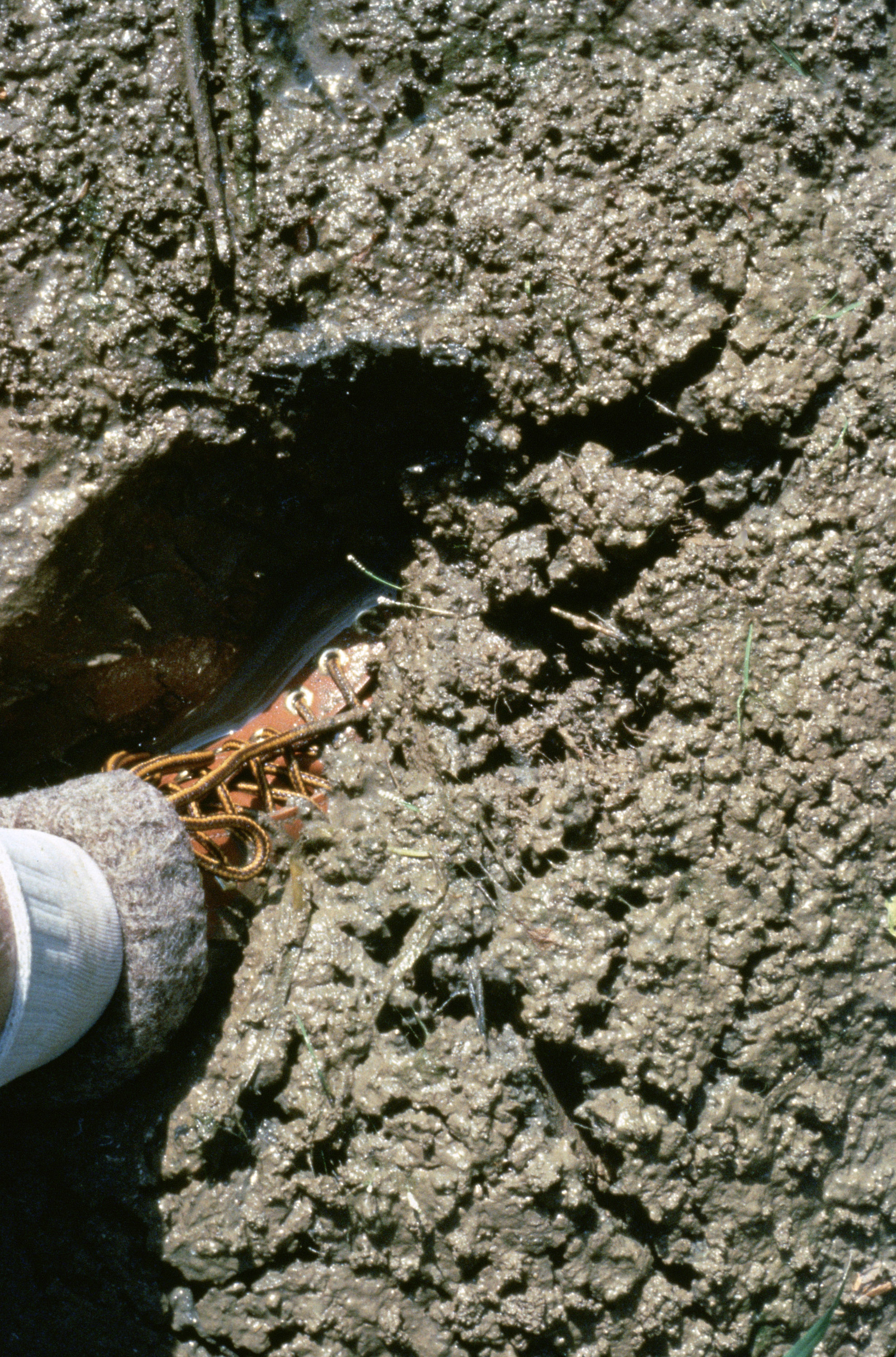 Sludge [1]